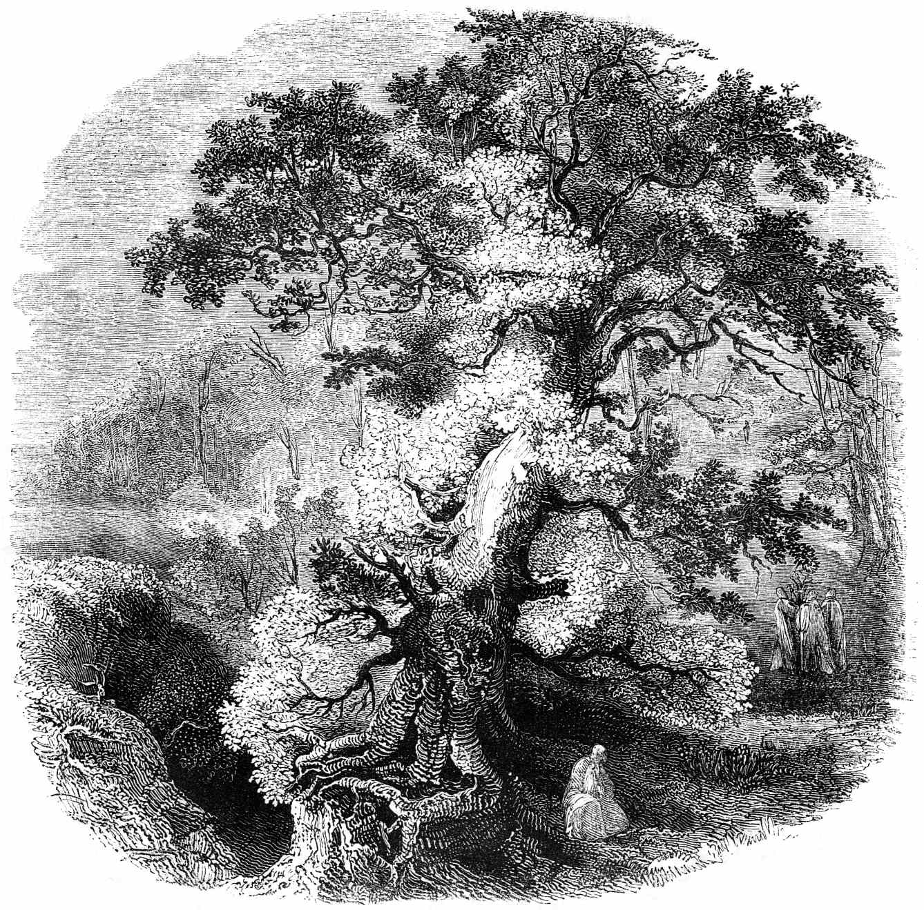 A bearded and robed man sits in the shade of a giant tree, probably an oak tree; in the background a group of three robed figures surrounds a smaller tree.